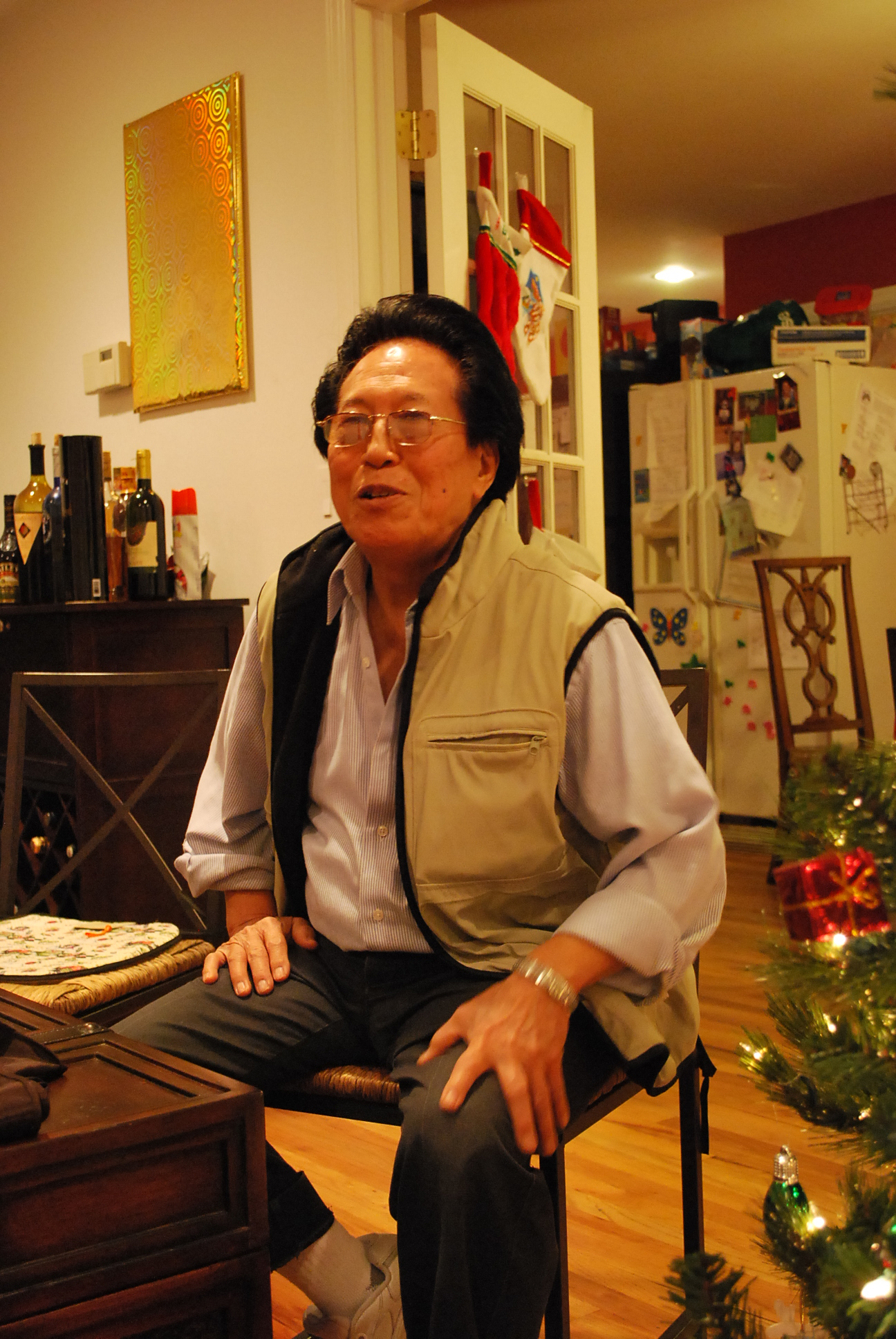 Retired Captain Alfredo Abon Lee of the Cuban Army.